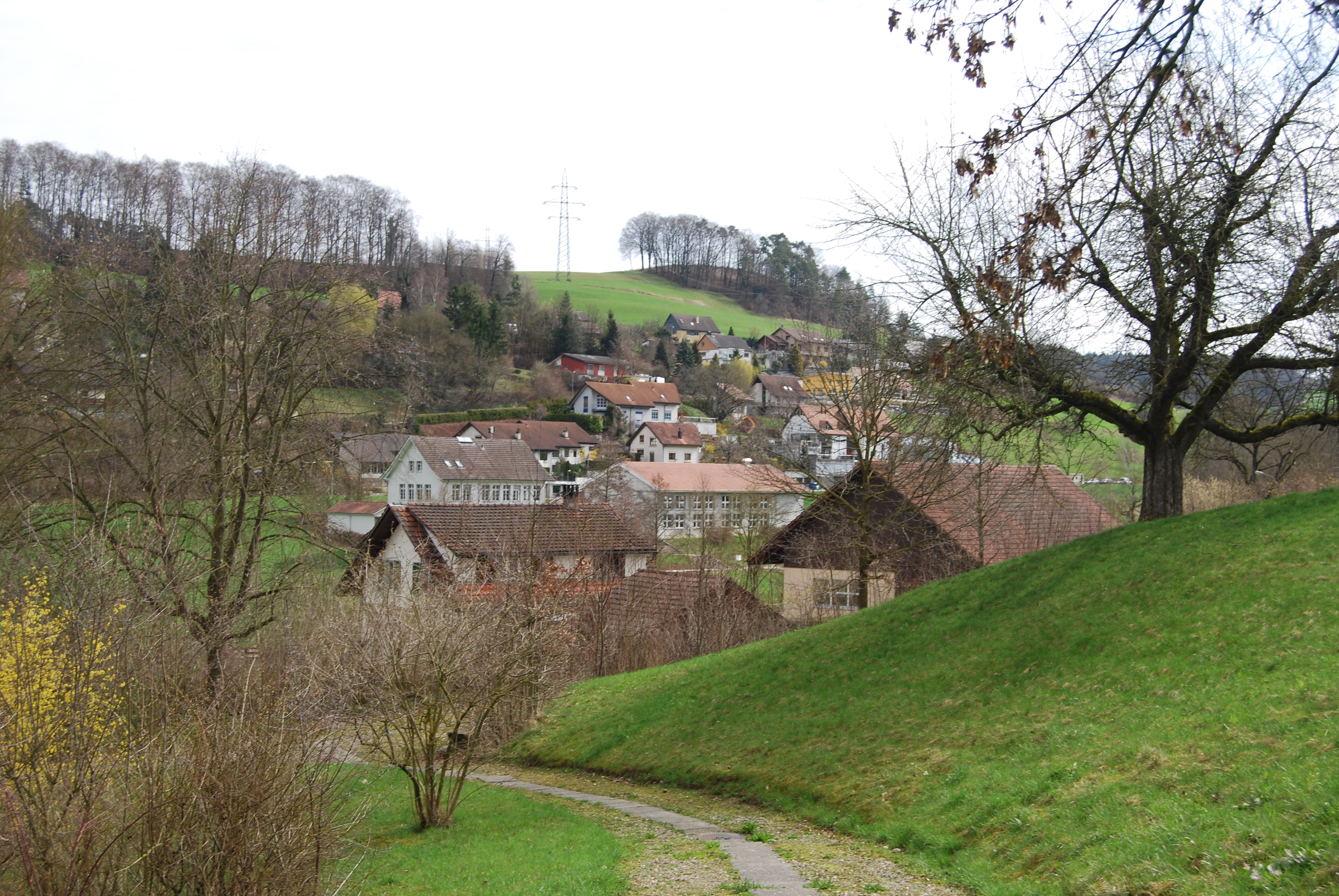 Wislikofen, canton of Aargau, SwitzerlandEsperanto: Wislikofen, Kantono Argovio, Svislando